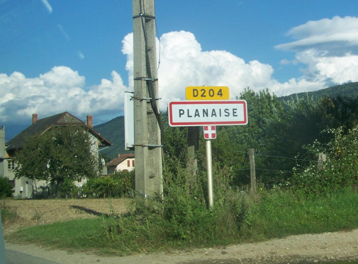 Welcome roadsign of French commune of Planaise situated in Savoie.